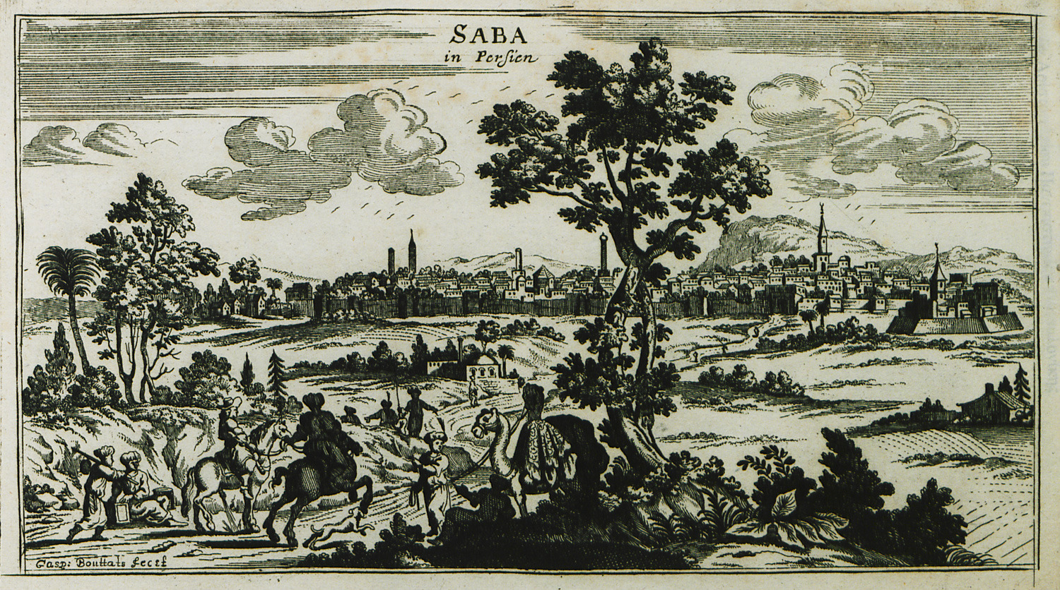 Jacob Peeters. Description des principales villes, havres et isles du golfe de Venise du coté oriental. Comme aussi des villes et forteresses de la Moree, et quelques places de la Grèce, Antwerp, Sur le marché des vieux Souliers, 1690.